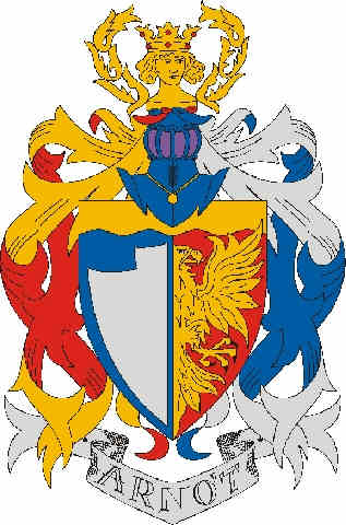 Coat of arms of Arnót, Hungary